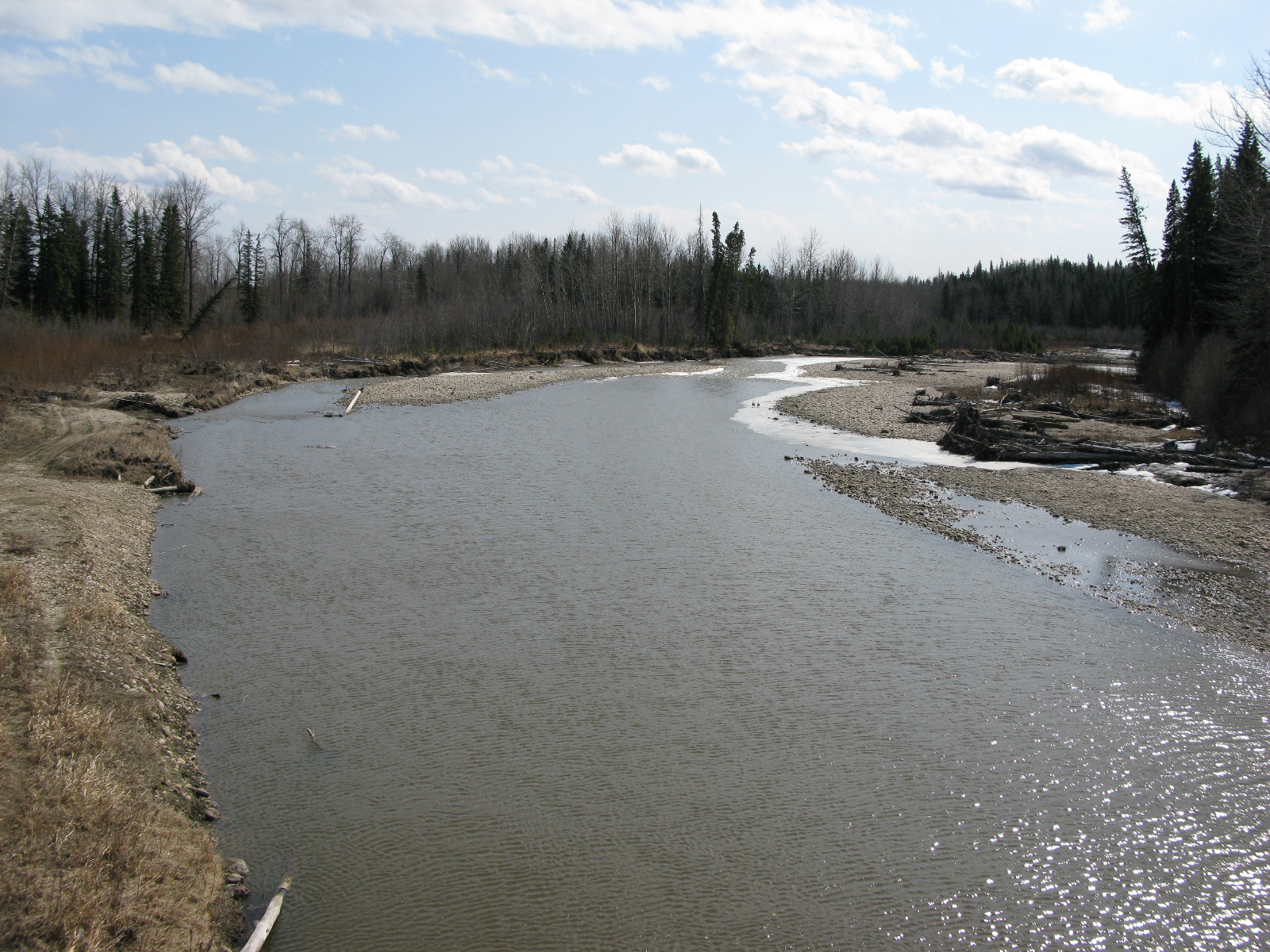 Wheateater